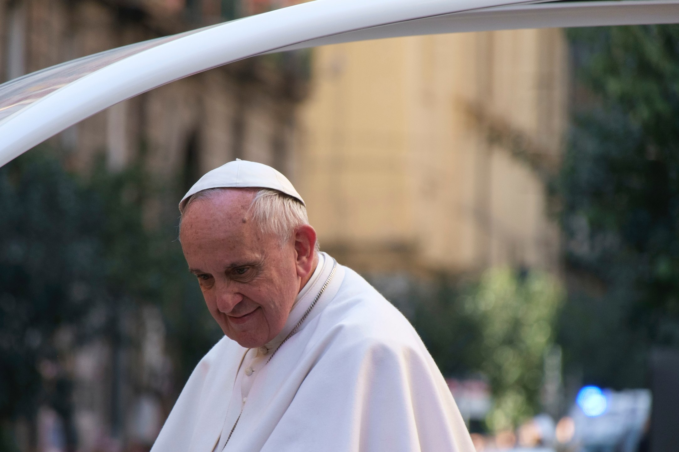 Pope Francis during his visit to Naples, Italy.